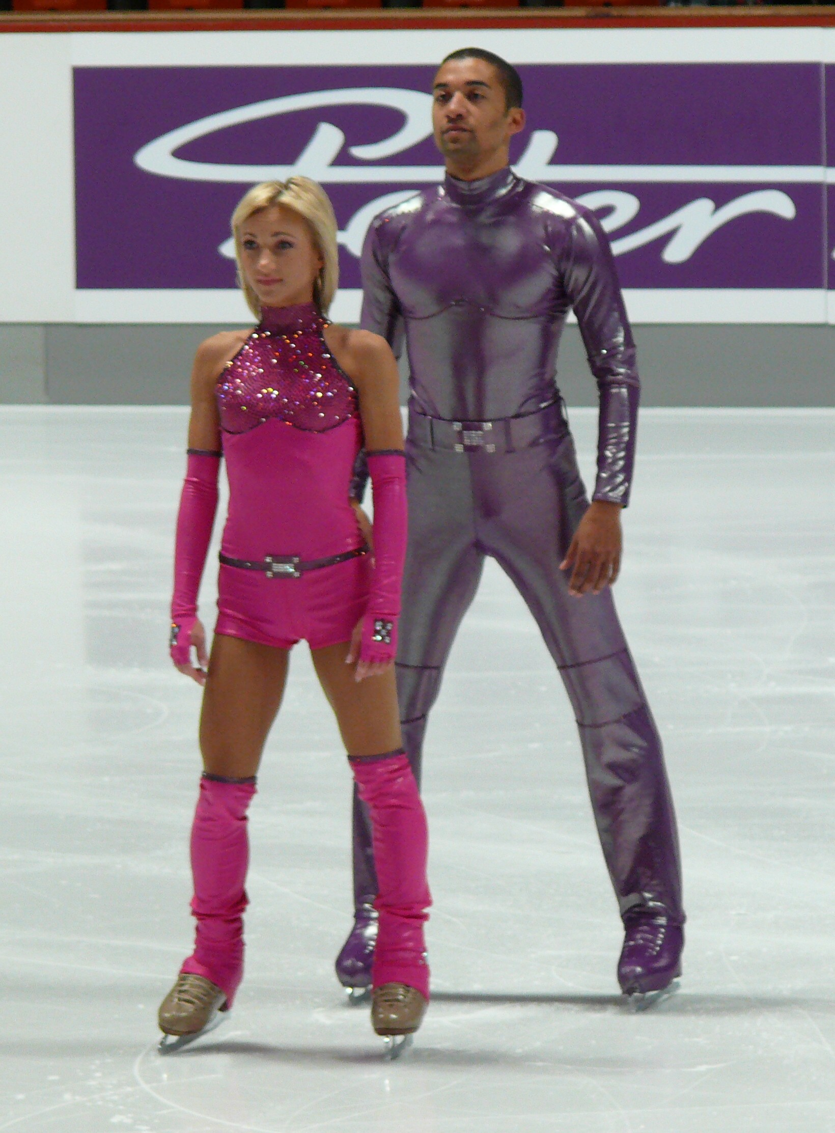 Aljona Savchenko and Robin Szolkowy (GER) at their short program at the Nebelhorntrophy in Oberstdorf, Germany